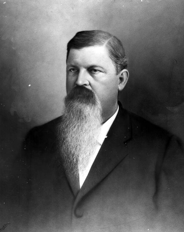 "McWhorter was Speaker of the House in 1877. He was Chief Justice of the Florida Supreme Court from 1885 until 1887. He served for the Railroad Commission of the State of Florida from August 17, 1887 until June 13, 1891."